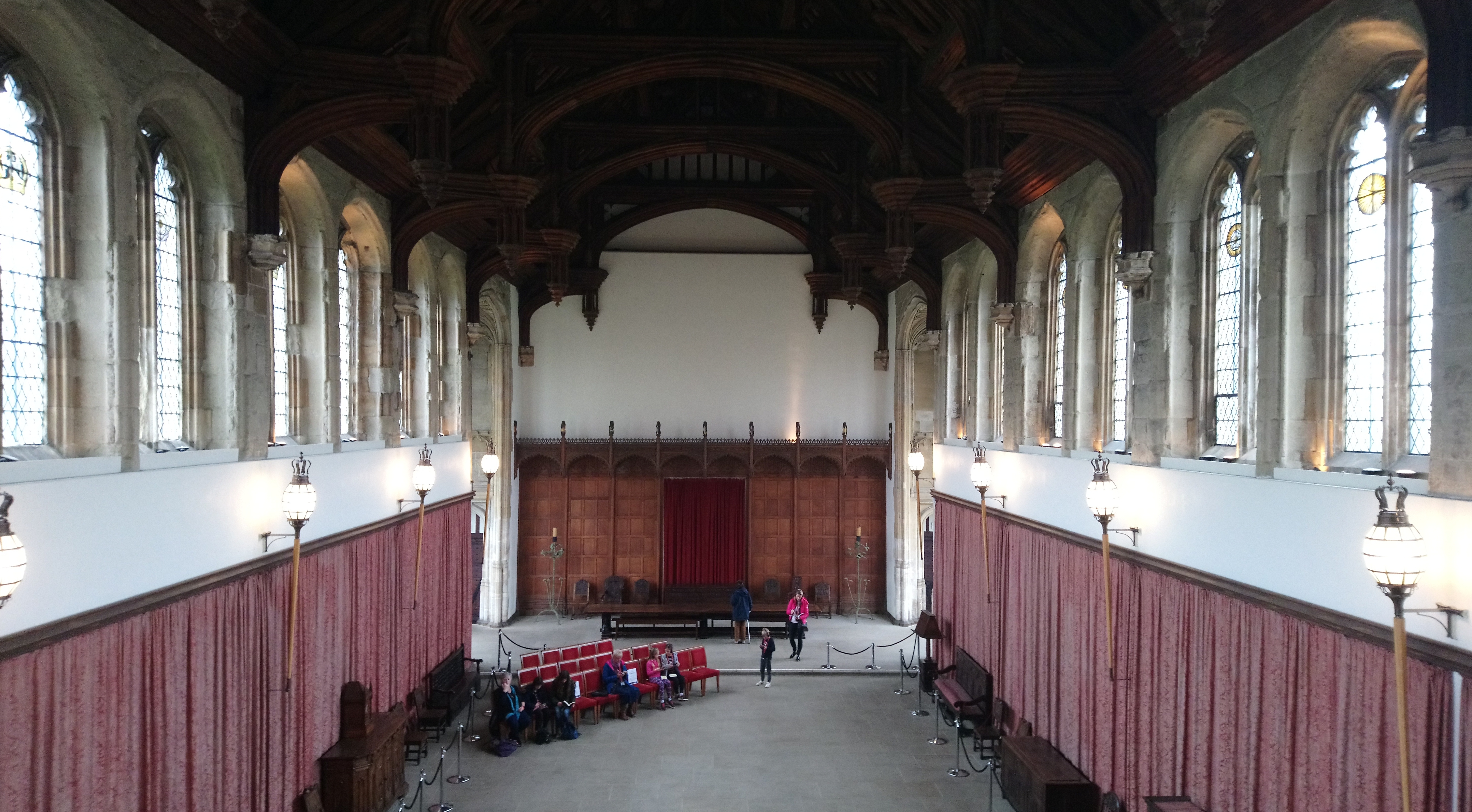 Eltham Palace great hall Wikidata has entry Q62397 with data related to this item.